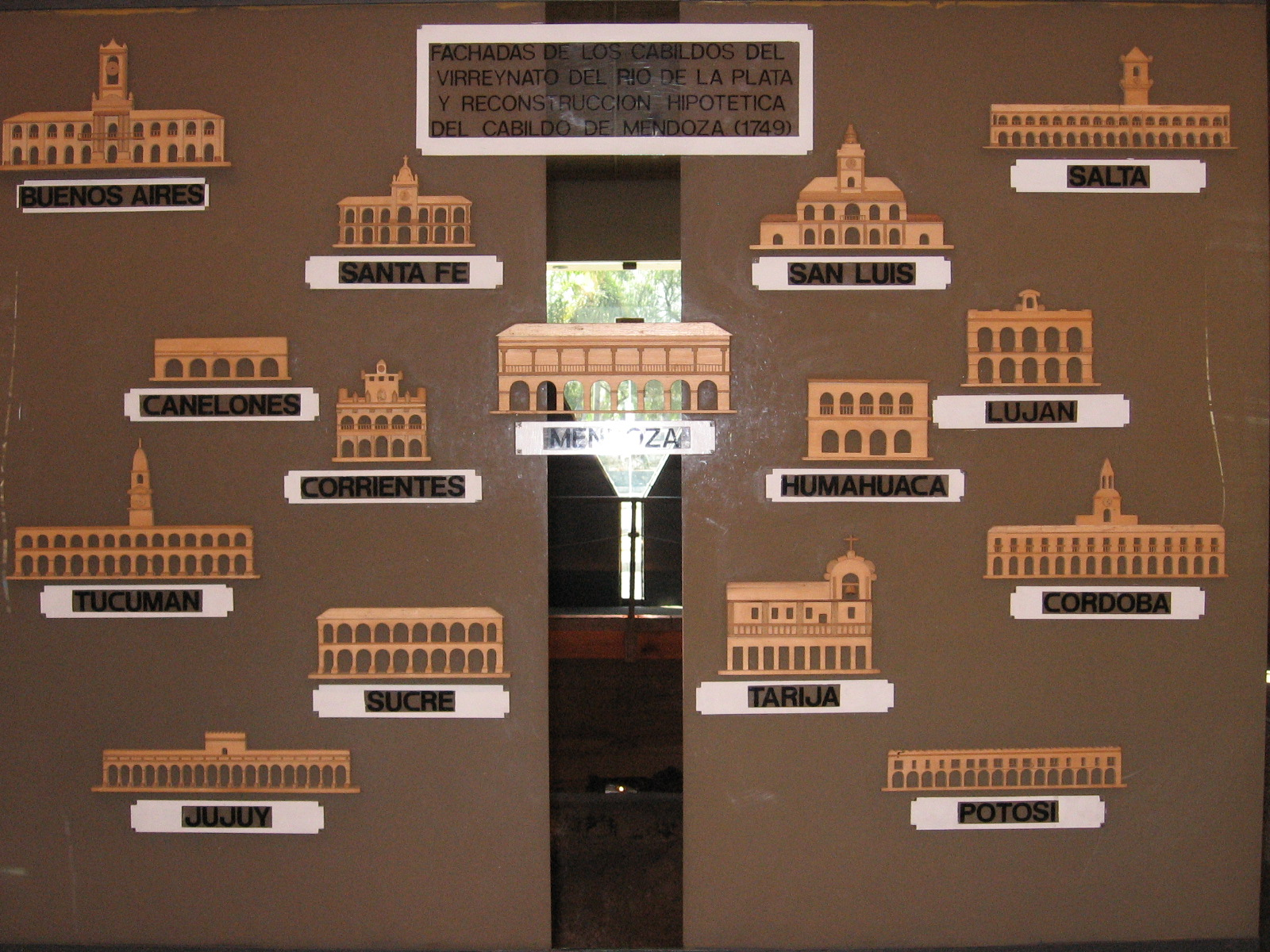 Shapes of the cabildos of the Virreinato del Río de la Plata